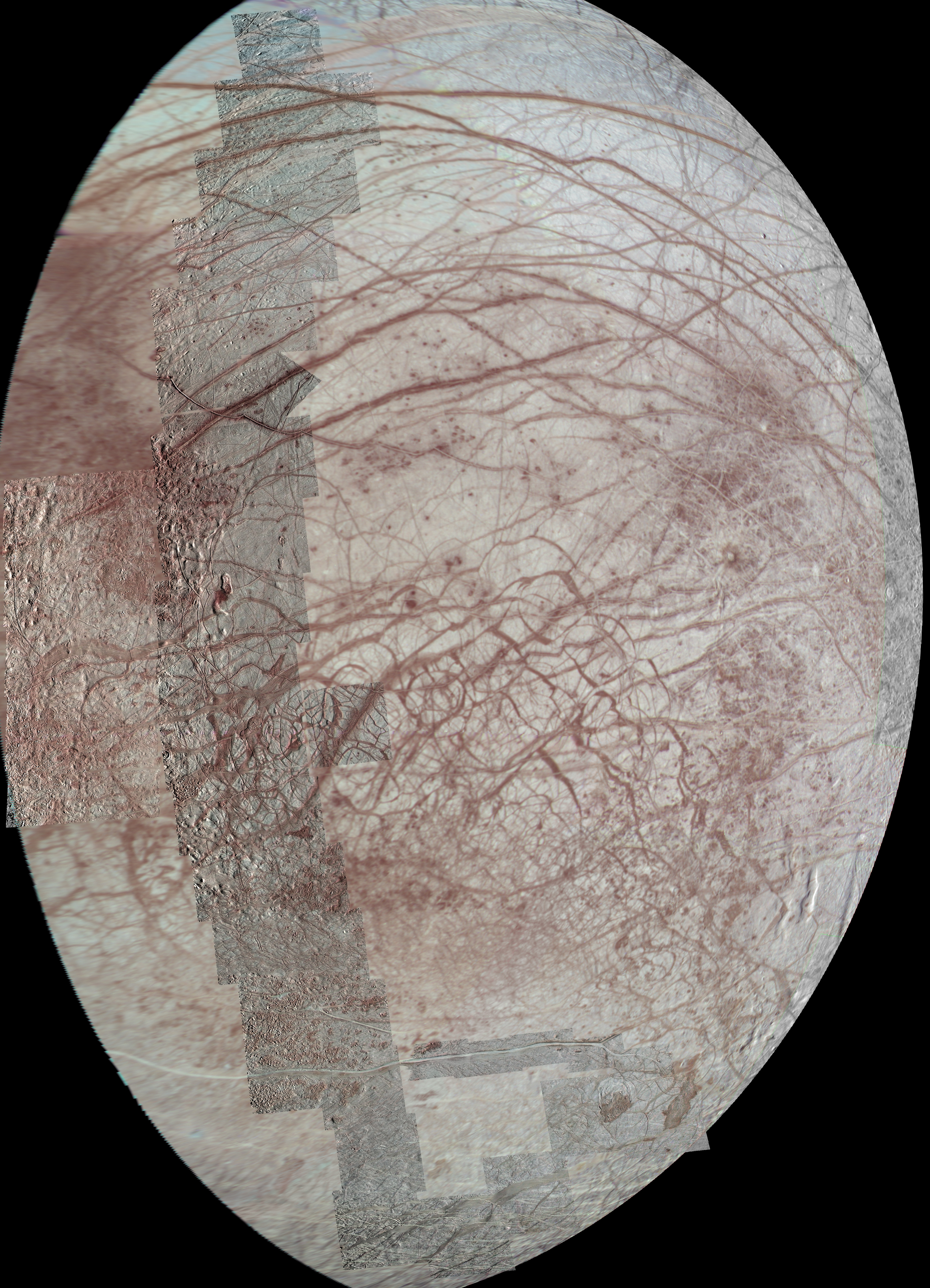 This view of Jupiter’s moon Europa features several regional-resolution mosaics overlaid on a lower resolution global view for context. The regional views were obtained during several different flybys of the moon by NASA's Galileo mission, and they stretch from high northern to high southern latitudes. Prominent here are the long, arcuate (or arc-shaped) and linear markings called lineae (Latin for strings or threads), which are a signature feature of Europa’s surface. Color saturation has been enhanced to bring out the subtle red coloration present along many of the lineae. The color data extends into the infrared, showing bluish ice (indicating larger ice grains) in the polar regions. The terrain in this view stretches from the side of Europa that always trails in its orbit at left (west), to the side that faces away from Jupiter at right (east). In addition to the lineae, the regional-scale images contain many interesting features, including lenticulae (small spots), chaos terrain, maculae (large spots), and the unusual bright band known as Agenor Linea in the south. This view is an orthographic projection centered on 5.53 degrees south latitude, 214.5 degrees west longitude and has a resolution of 1,600 feet (500 meters) per pixel. An orthographic view is like the view seen by a distant observer looking through a telescope. The mosaic was constructed from individual images obtained by the Solid State Imaging (SSI) system on NASA's Galileo spacecraft during six flybys of Europa between 1996 and 1999 (flybys designated G1, E11, E14, E15, E17, and E19).